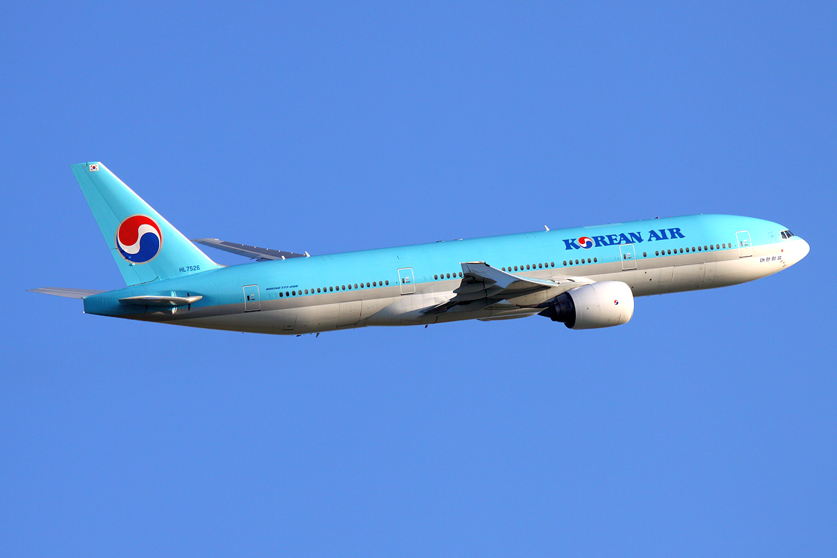 A Korean Air Boeing 777-2B5/ER just departed from Sheremetyevo International Airport (SVO / UUEE)